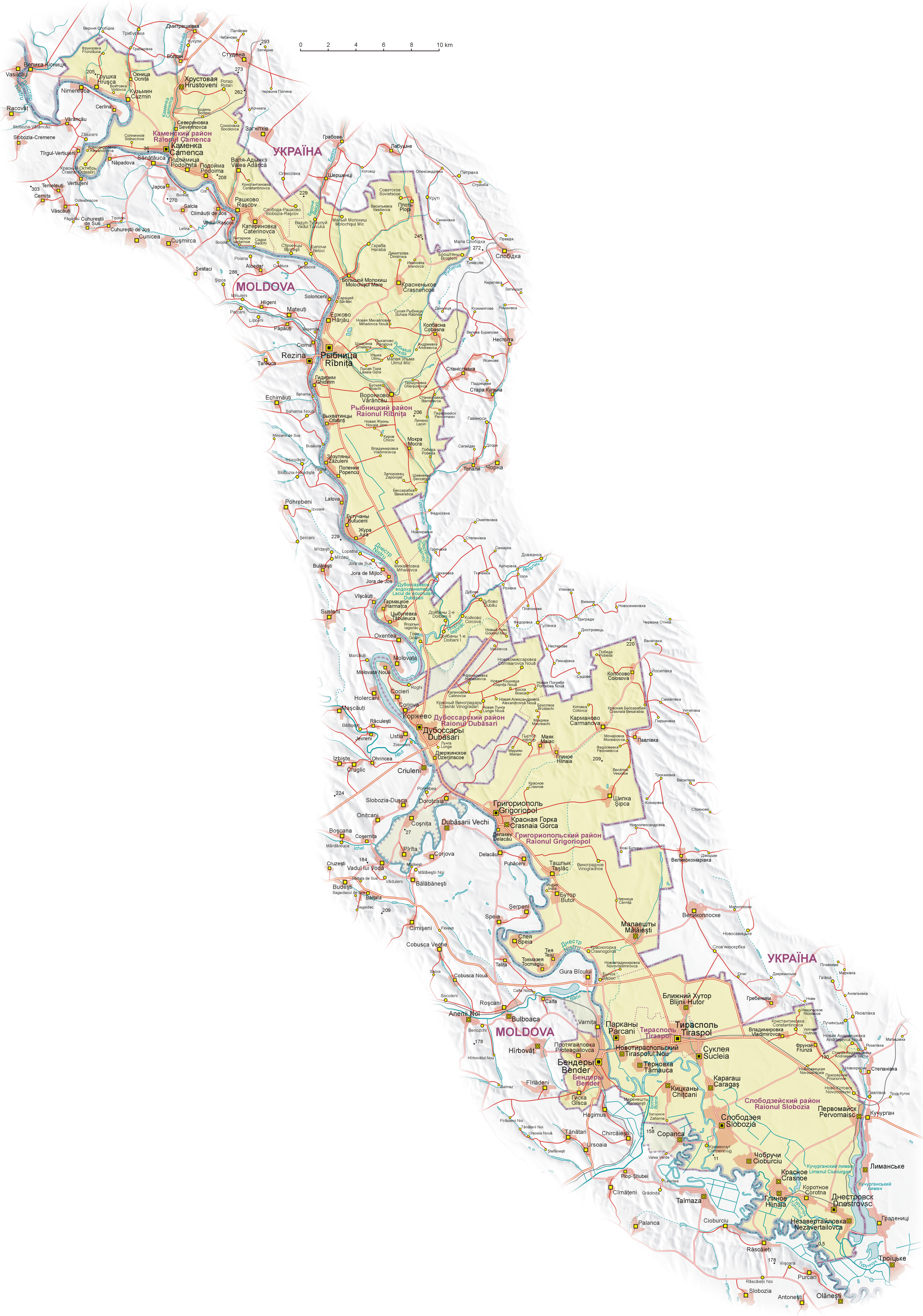 Map of Pridnestrovie (with claimed area), based on Soviet and Ukrainian topographic map, and Shuttle Radar Topography Mission (STRM).Geographical names: in Pridnestrovie: Russian names in cyrillic alphabet according to Pridnestrovian government and Moldavian names in latin alphabet in Moldova proper: Moldavian names in latin alphabet in Ukraine: Ukrainian names in cyrillic alphabet Legend